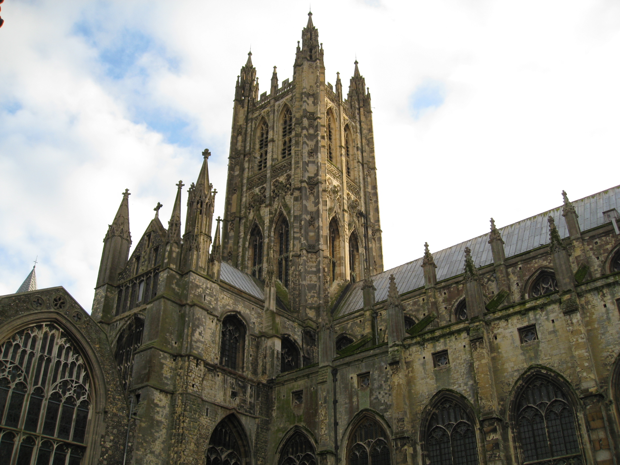 Catedral de Canterbury